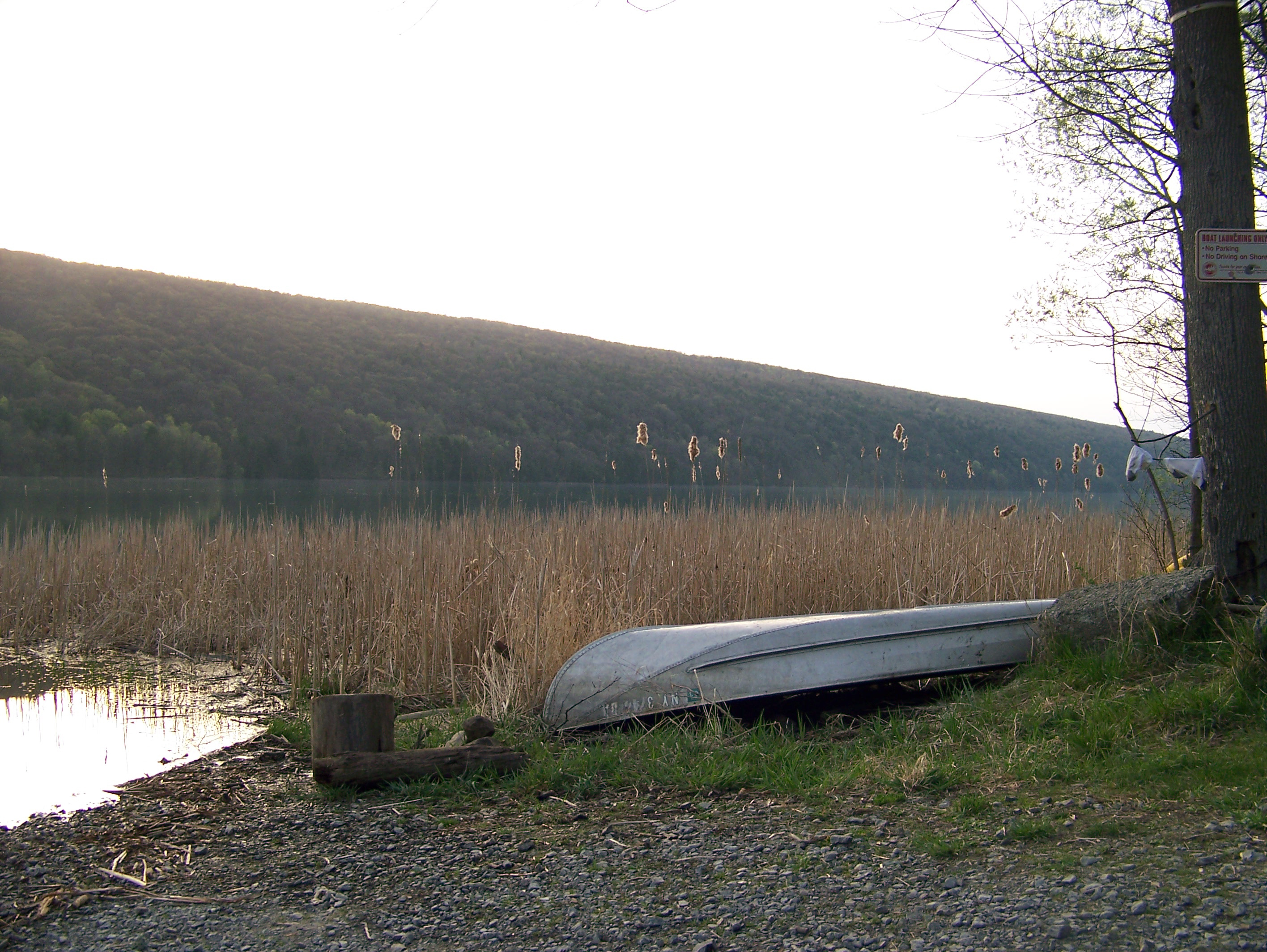 Hemlock Lake, New York in the evening. Taken by friend who released it under CC-BY-SA 3.0 and GFDL. Color enhanced by Photoshop CS3.